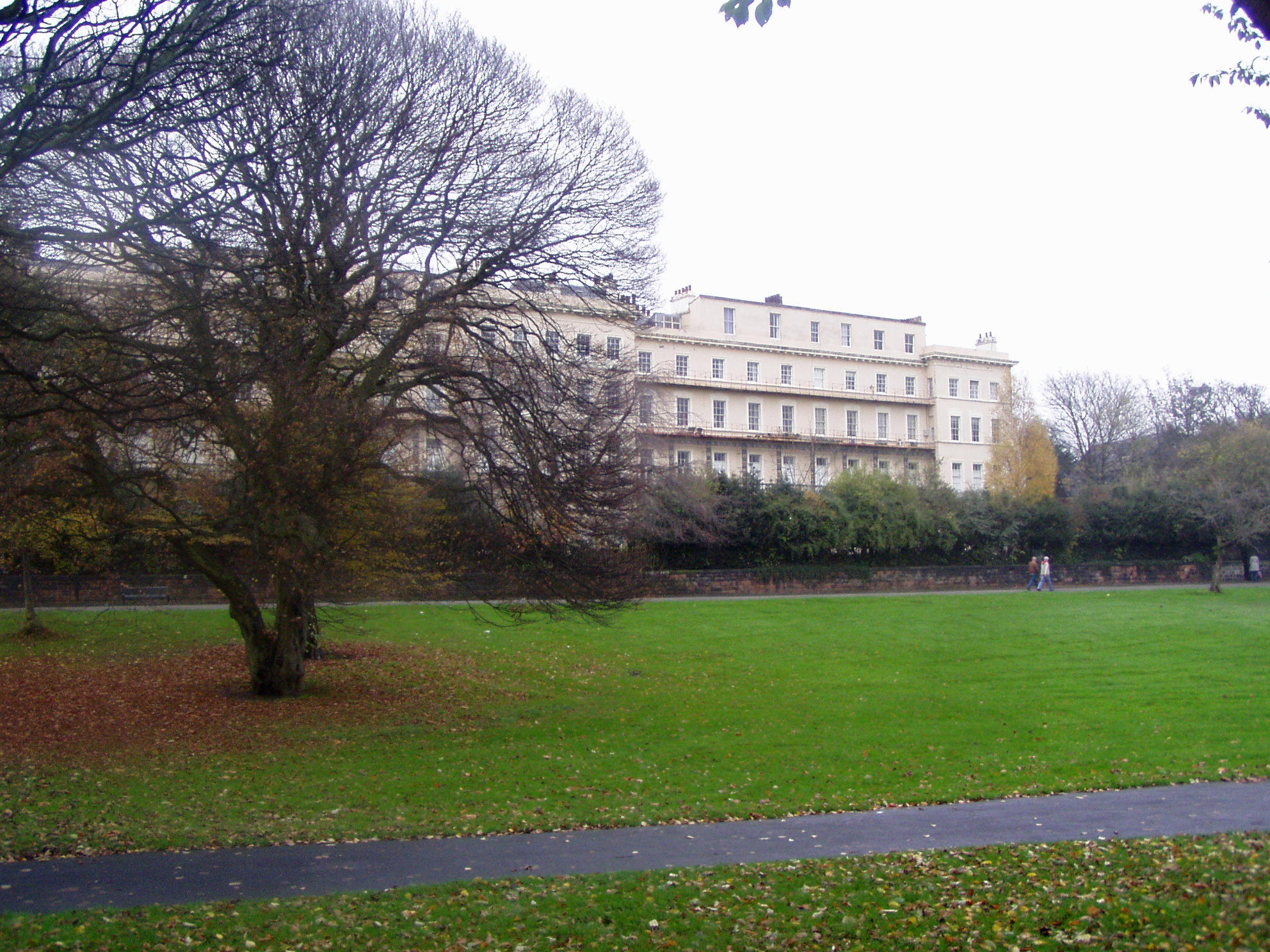 Pictures of Princes park in Liverpool